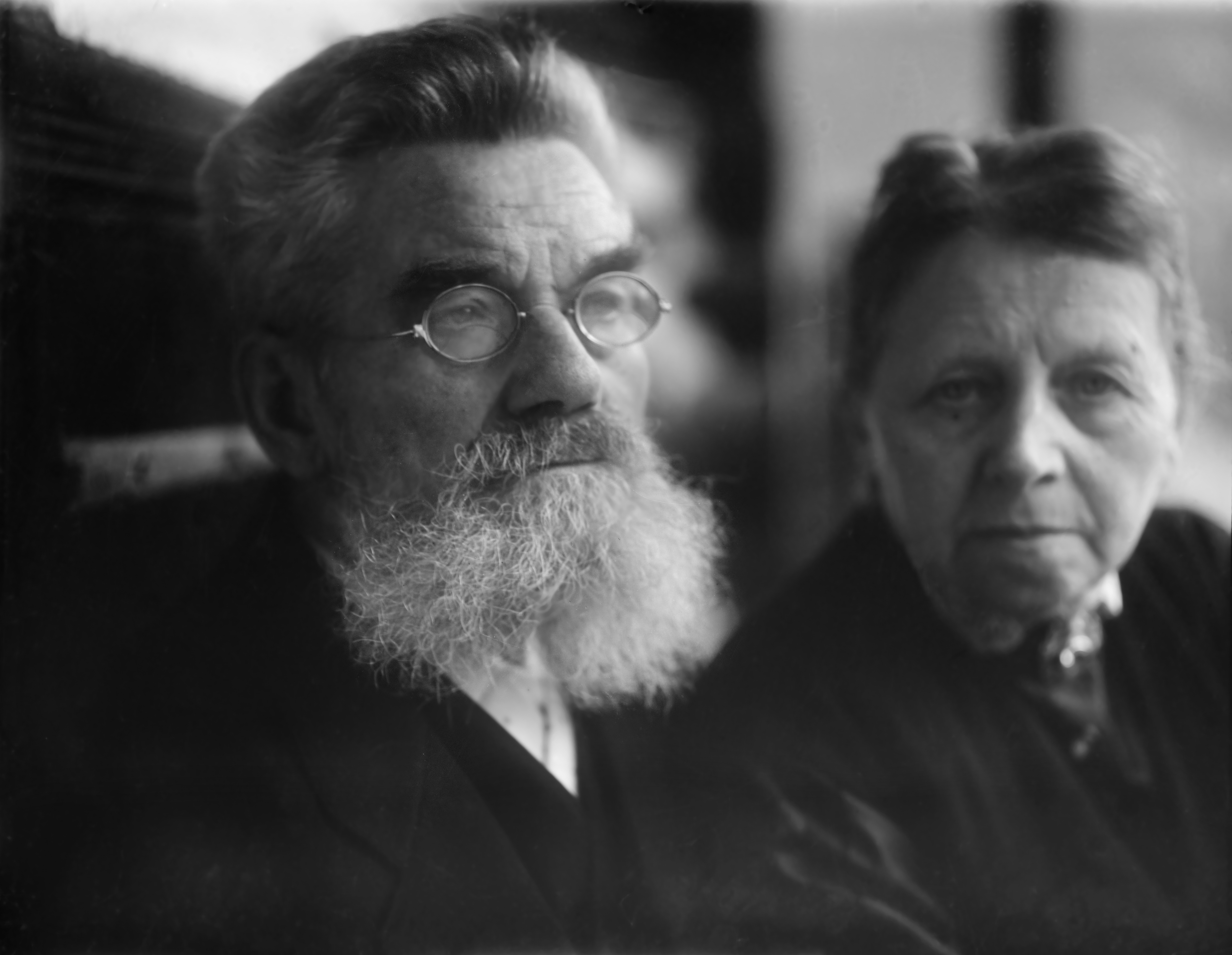 The parents of Ernst Ludwig Kirchner, Ernst Kirchner and his wife.